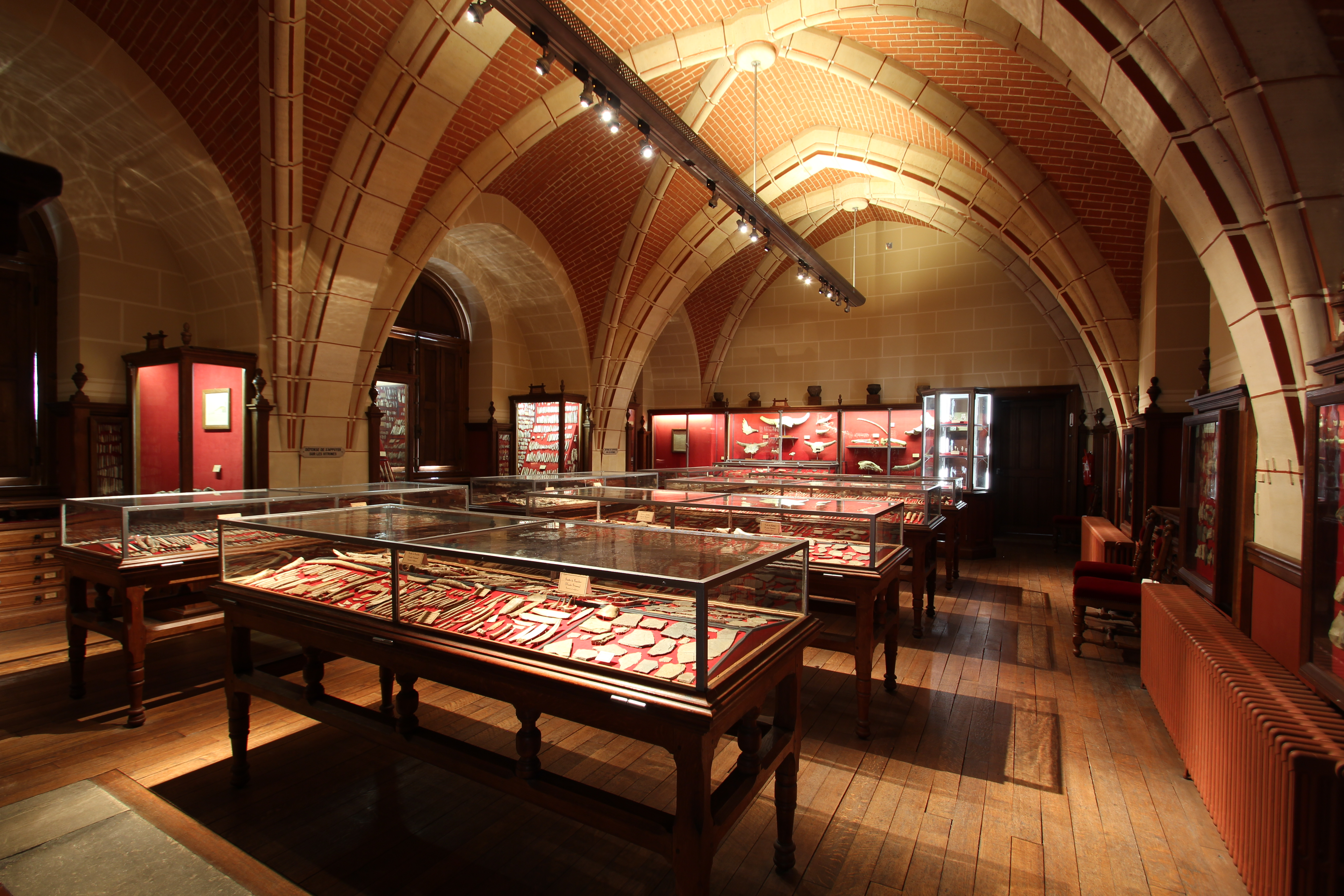 Room Piette at the National Archaeological Museum in Saint-Germain-en-Laye, France.